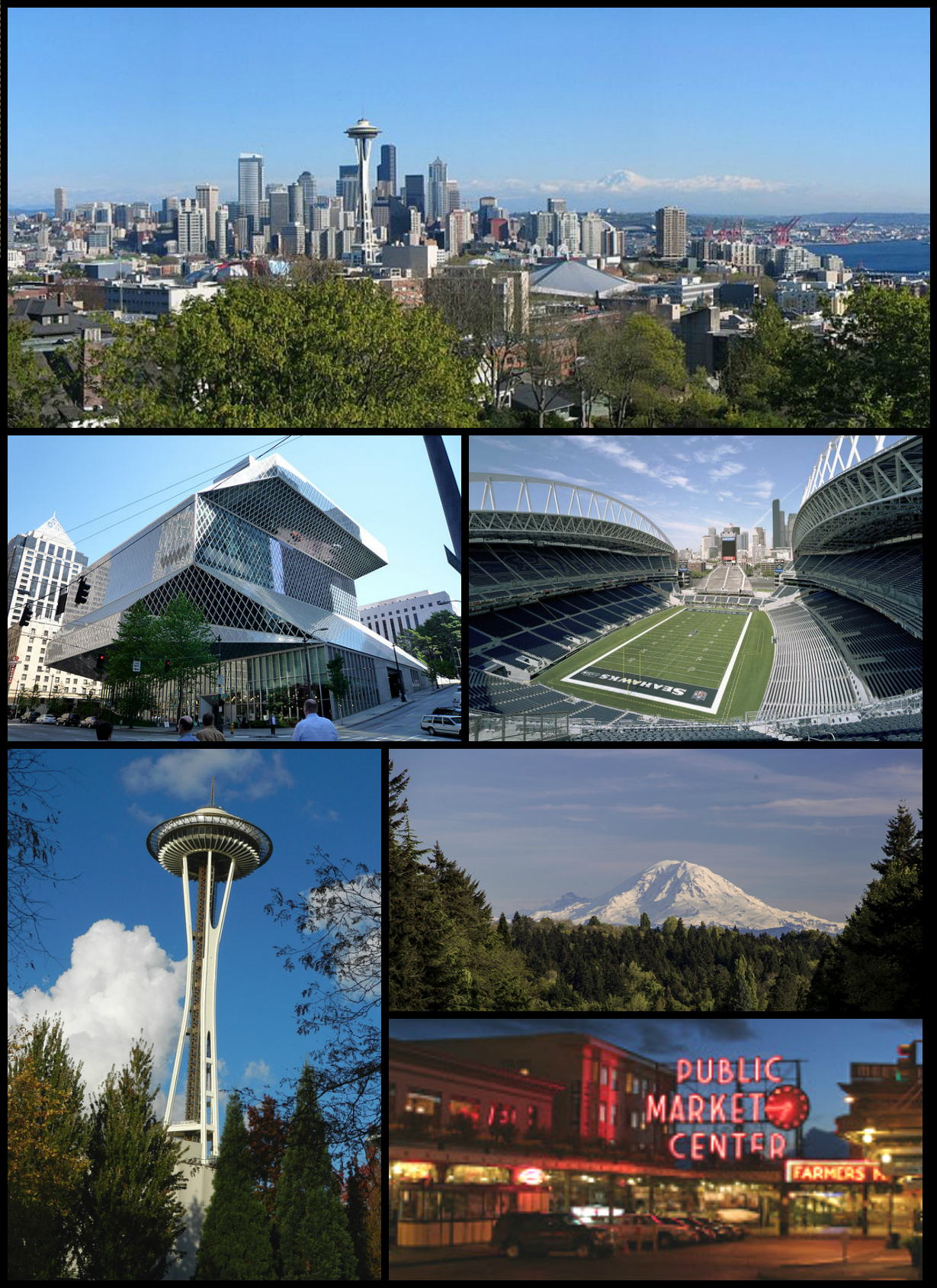 From the top-right corner: Seattle skyline view from Kerry Park Seattle Central Library CenturyLink Field Space Needle Mount Rainier Pike Place Market